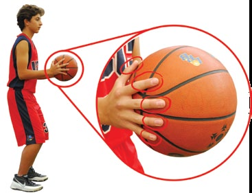 basketball